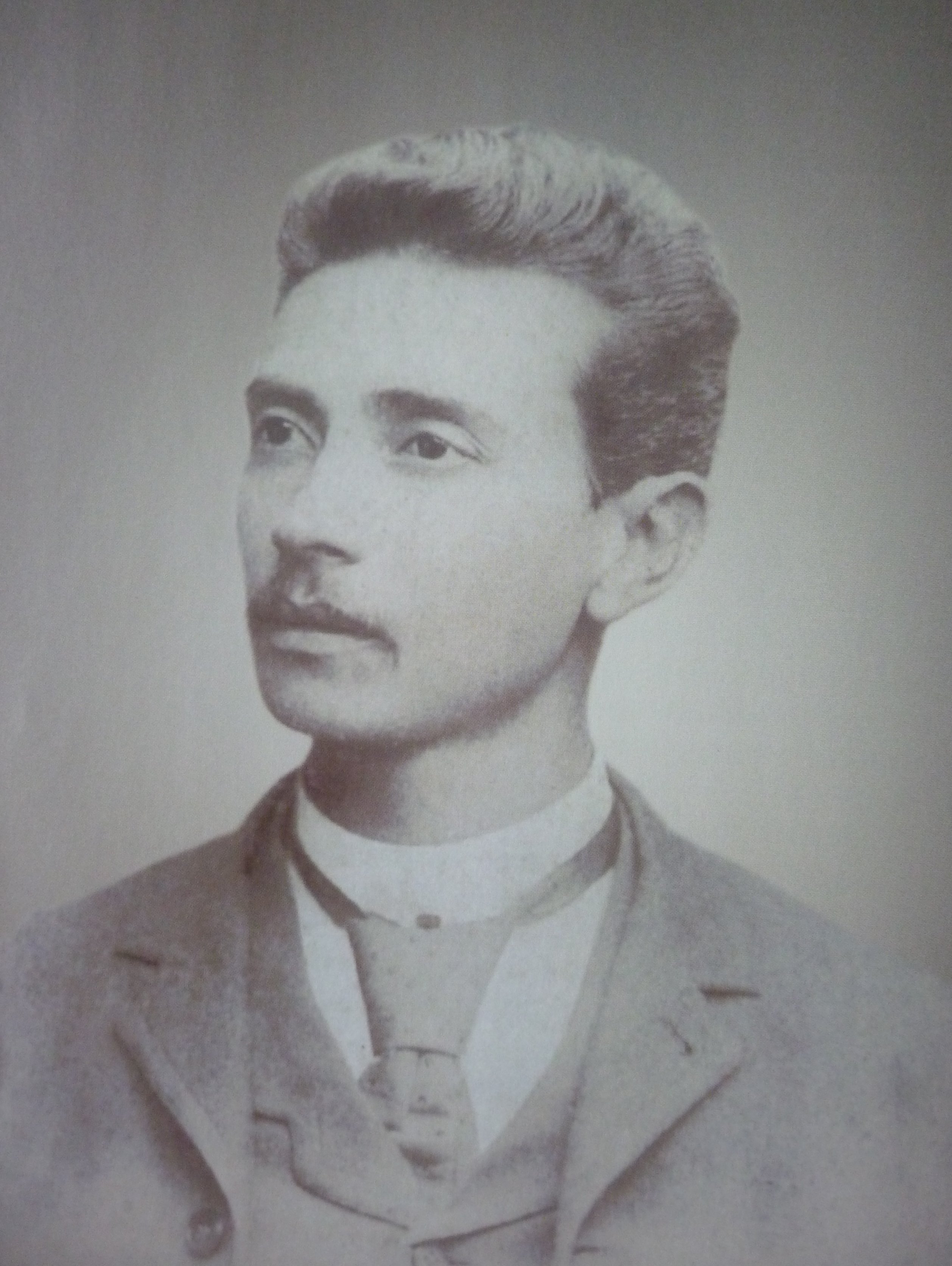 The young Tomas Regalado, at twenty years.